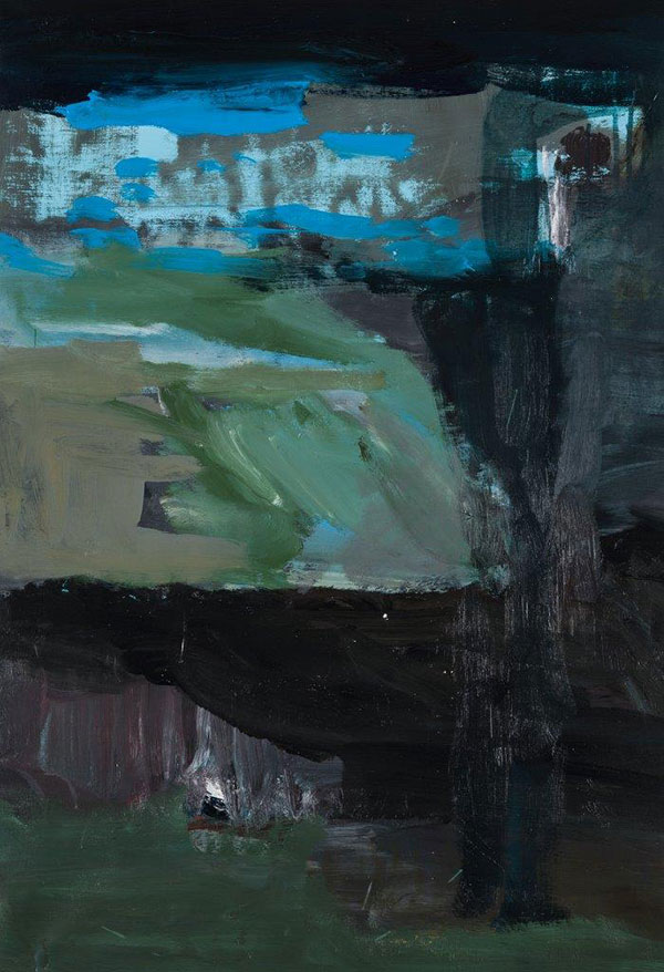 Sergei Sviatchenko. From the series Coronation, 2015